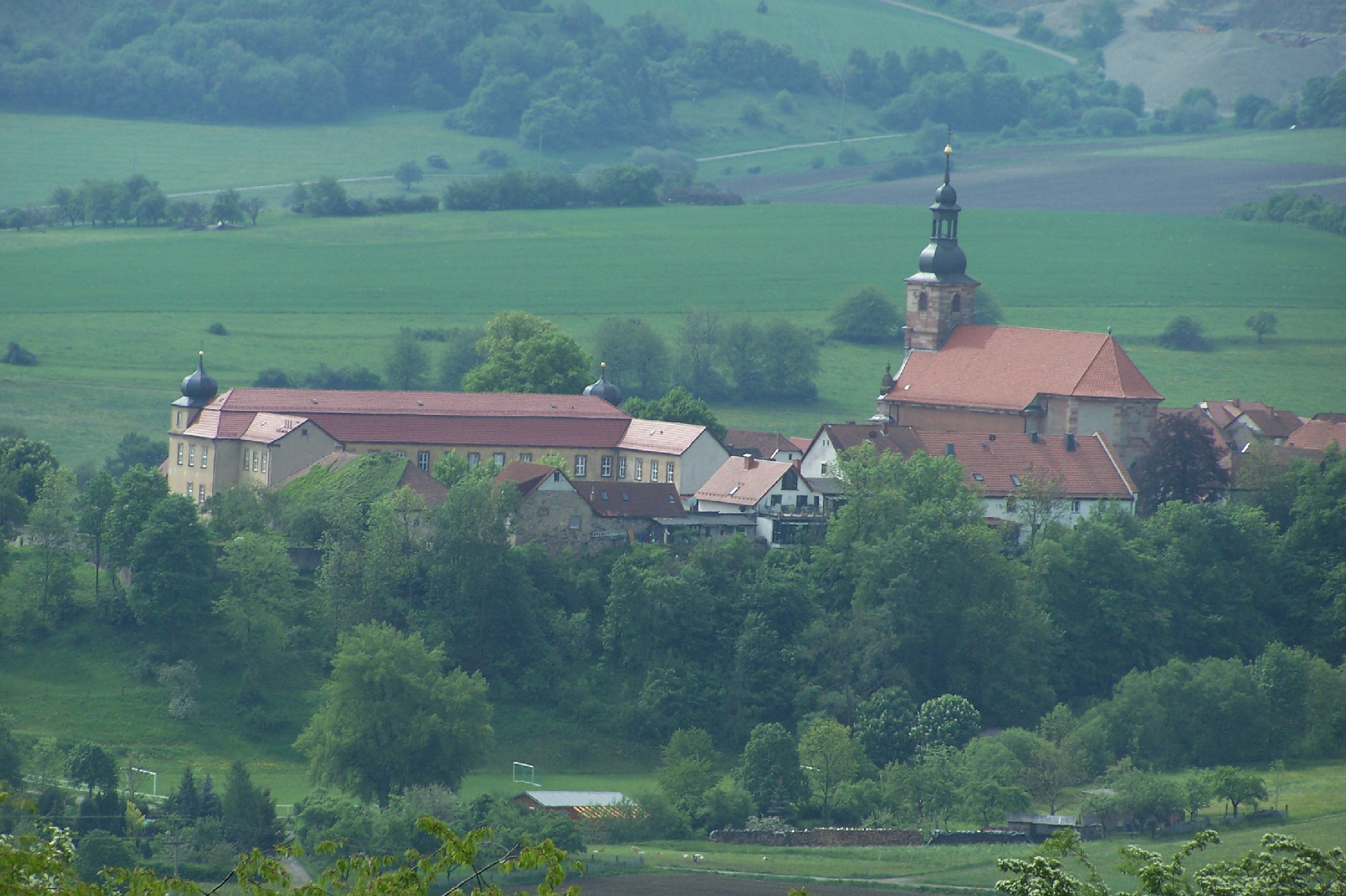 The castle Propstei Zella.